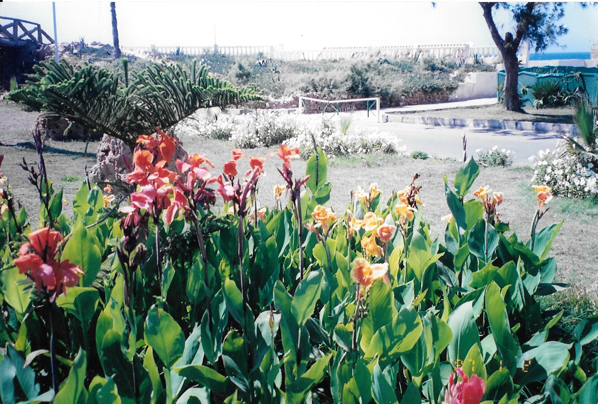 Montaza Palace Gardens, in Alexandria, Egypt. Mediterranean Sea in the top right